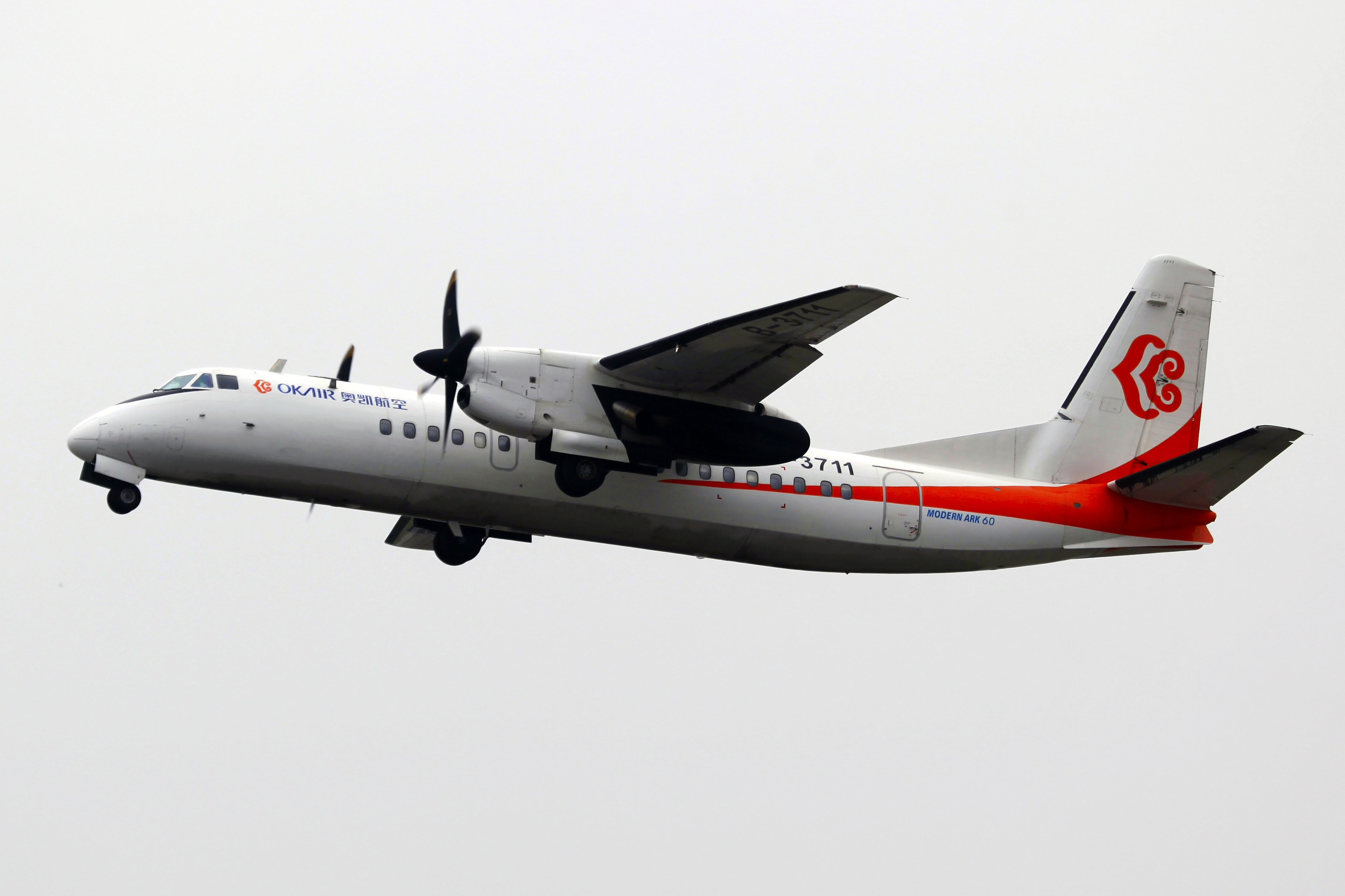 B-3711 | OK Air | Modern Ark 60 | Dalian Zhoushuizi International Airport [DLC]